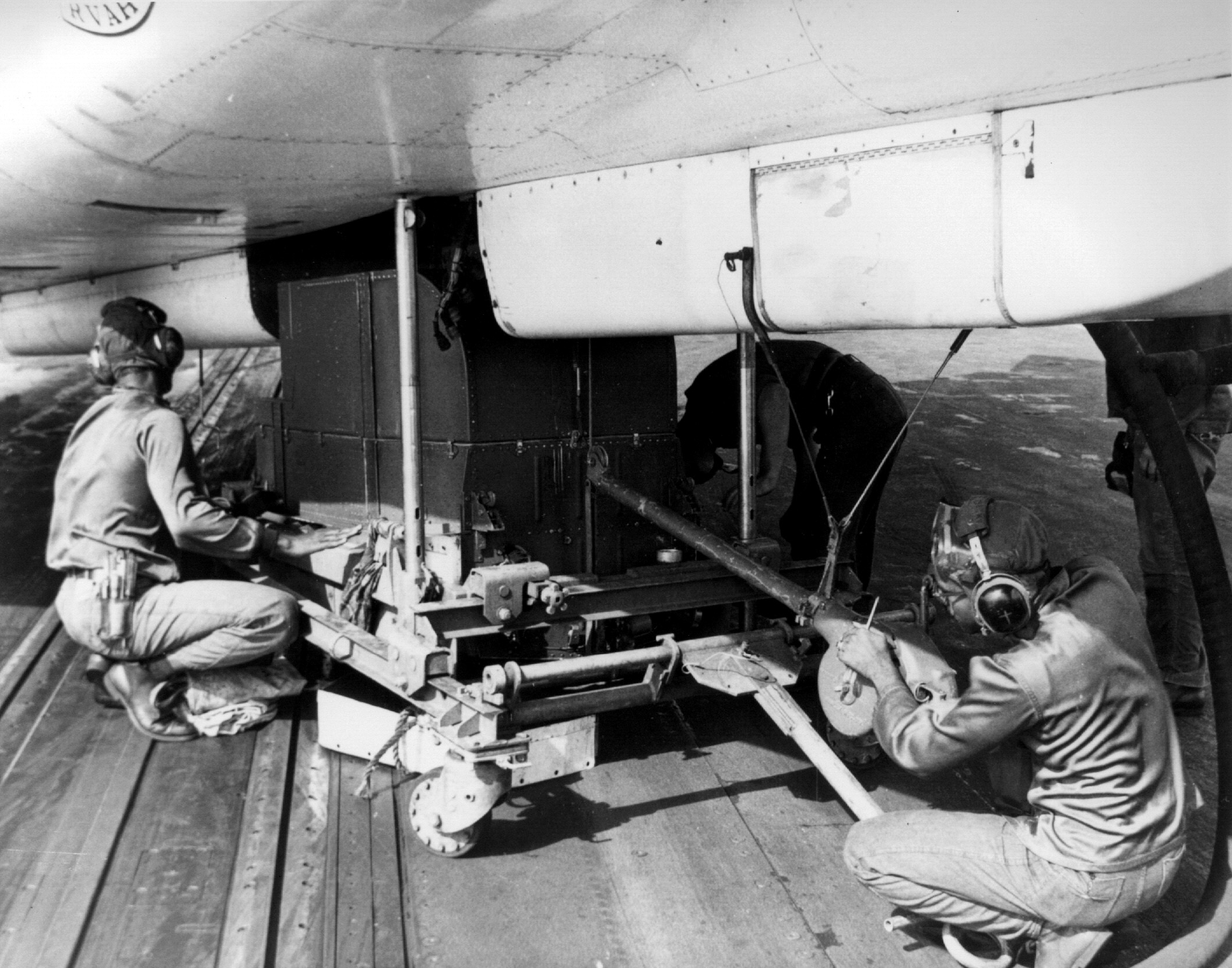 U.S. Navy flight deck personnel load camera equipment onto an North American RA-5C Vigilante.